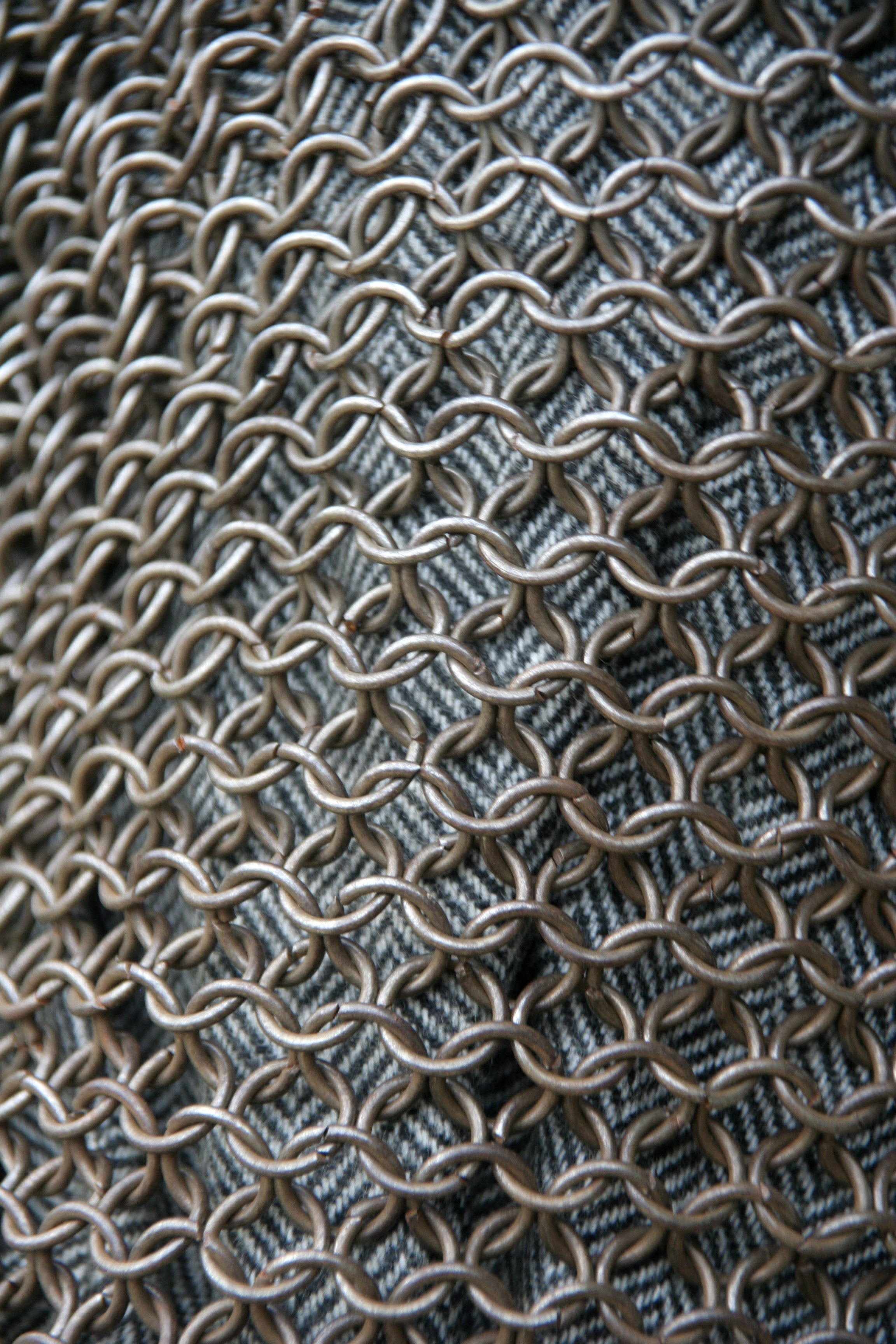 Detail of chainmail. Replica from second century Photographed by myself during a show of Legio XV from Pram, Austria